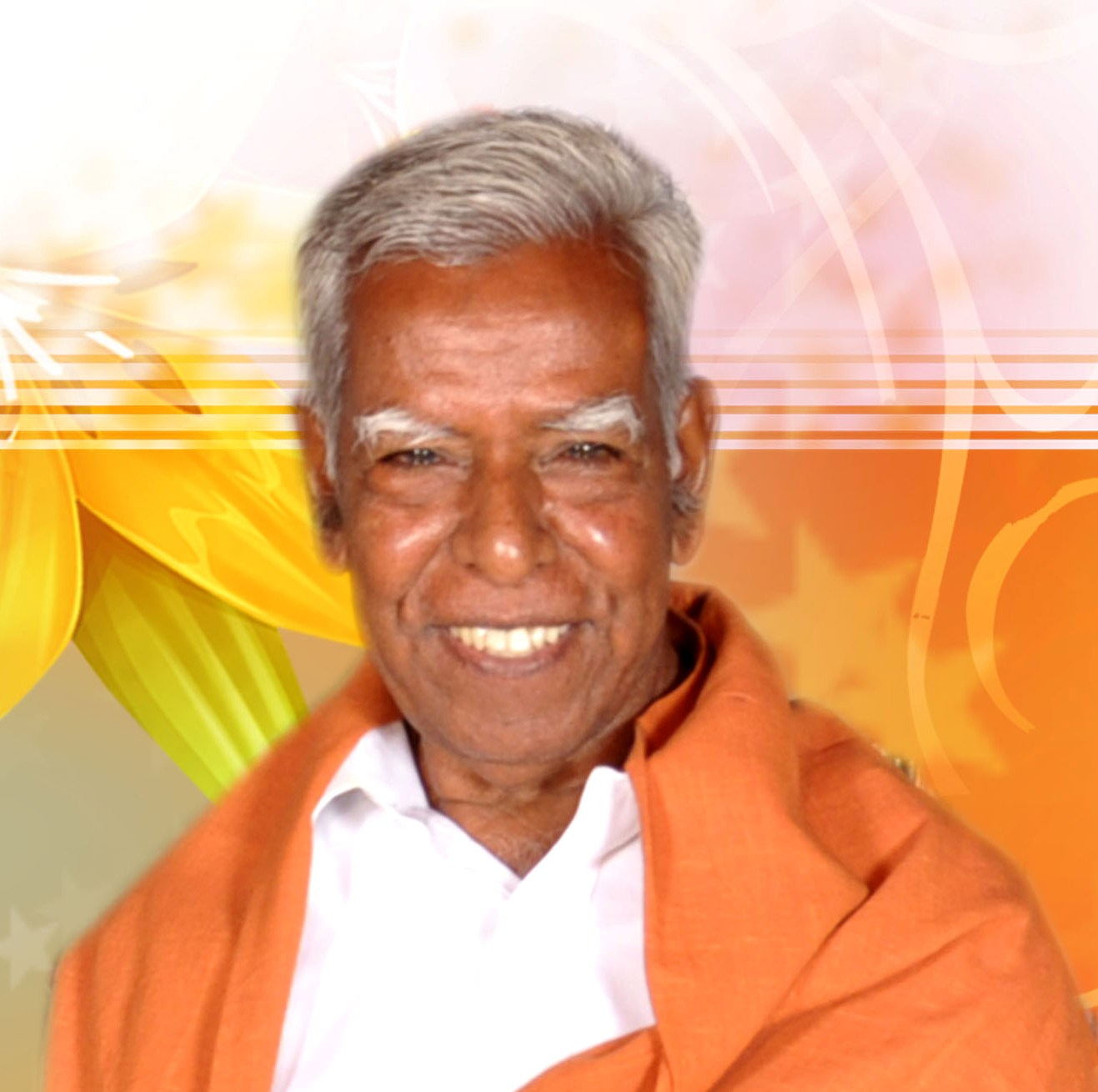 Photograph of poet Perumal Rasu from India